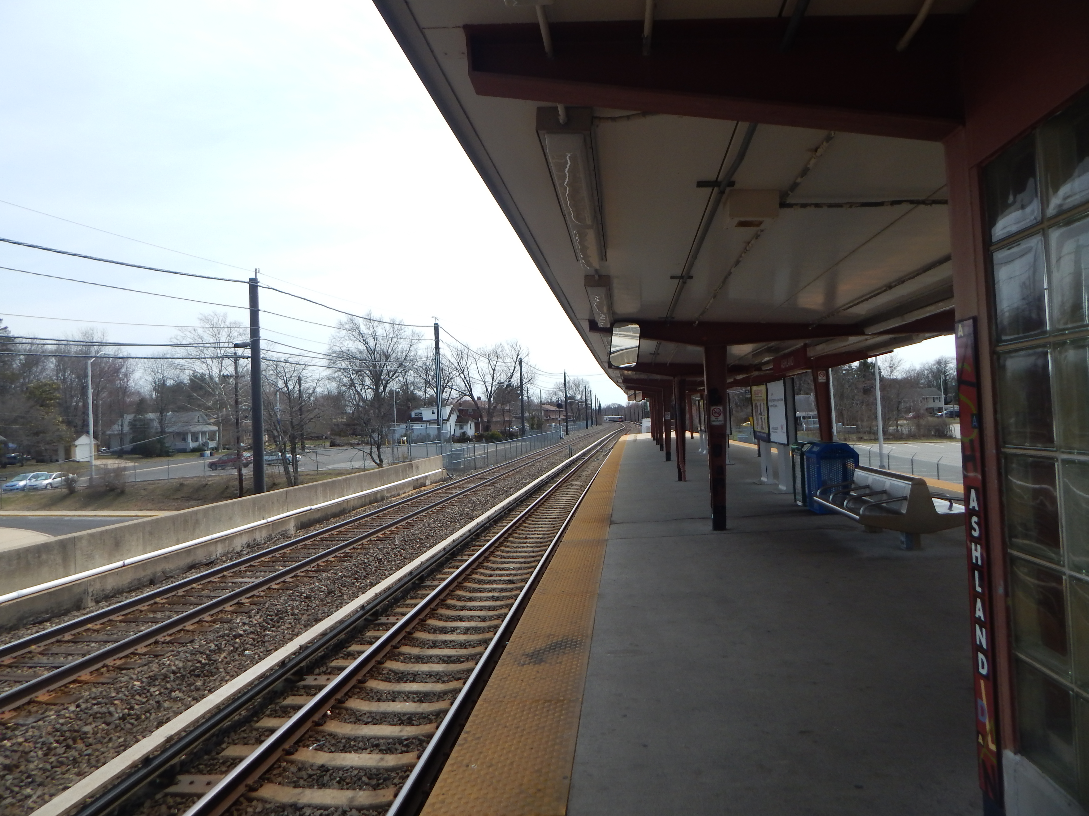 Ashland PATCO station in April 2015, with the Atlantic City Line through track at left